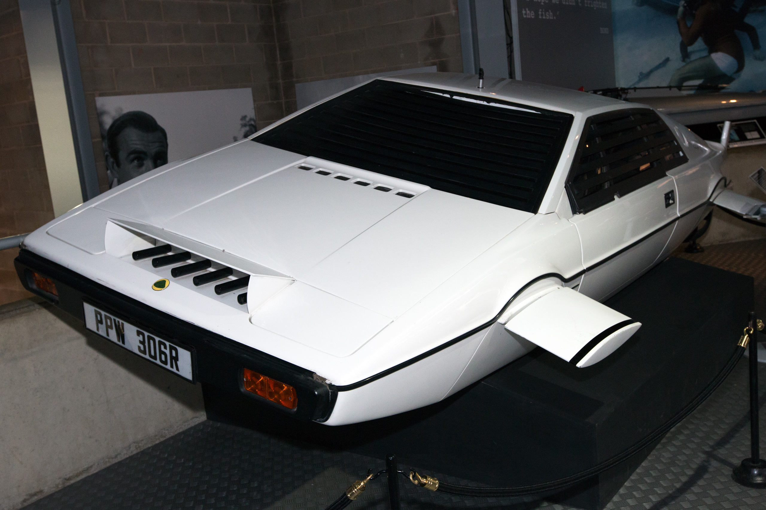 Lotus Esprit, from "The Spy Who Loved Me" (1977)